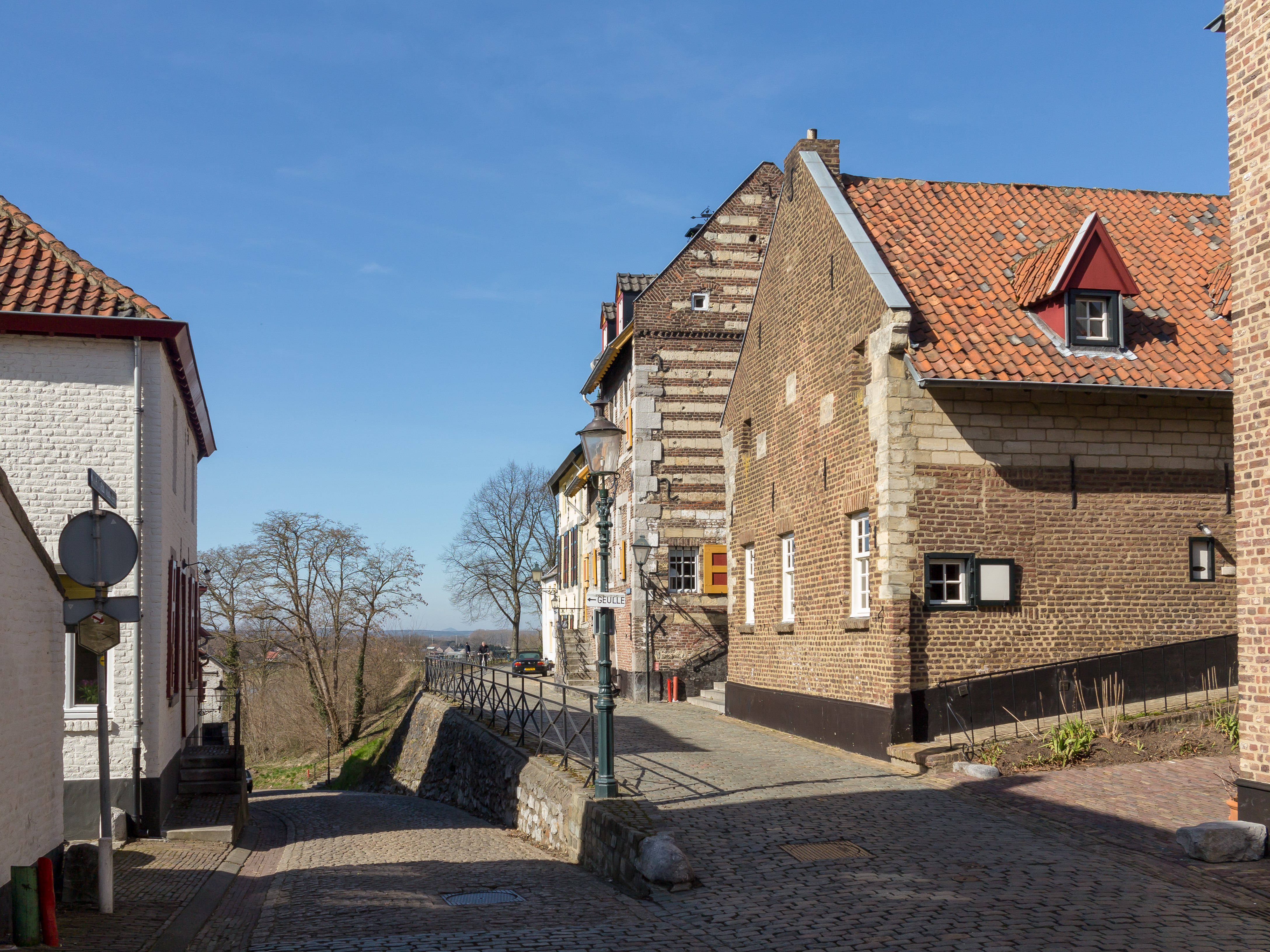 Elsloo, view to a street: Maasberg-Op de Berg